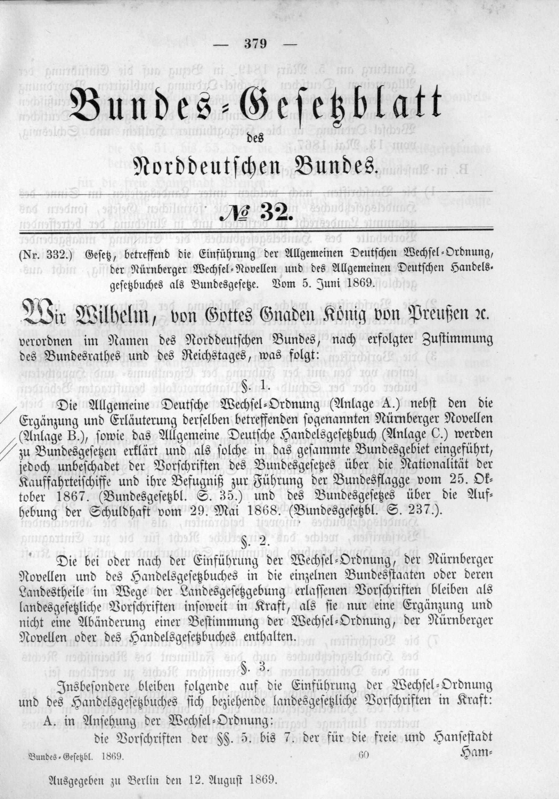 Scan from the Federal Law Gazette of the Northern-German Federation, 1869, copy-print 1891